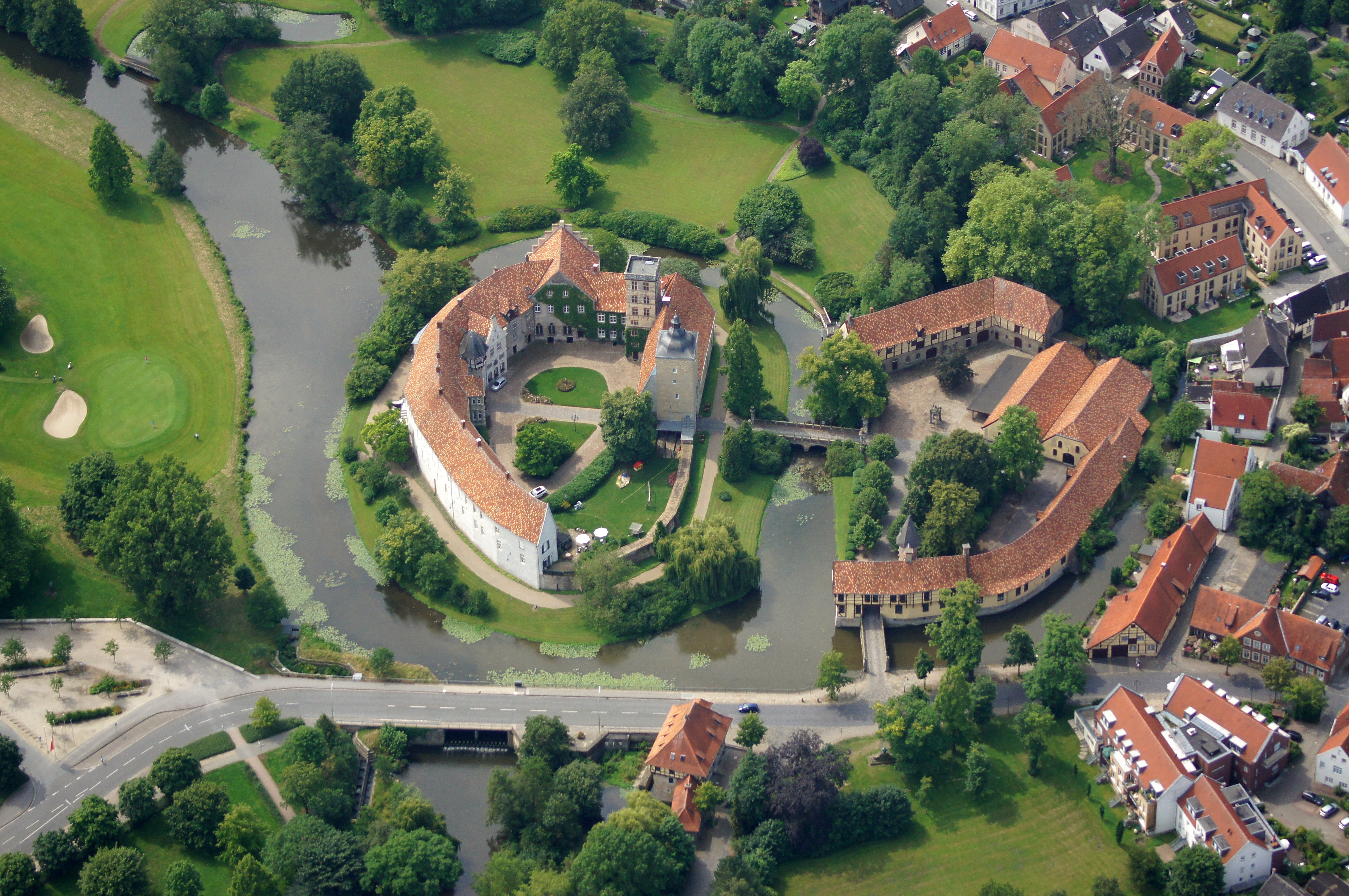 Schloss Burgsteinfurt is a castle in Steinfurt, district of Steinfurt in North Rhine-Westphalia, Germany.